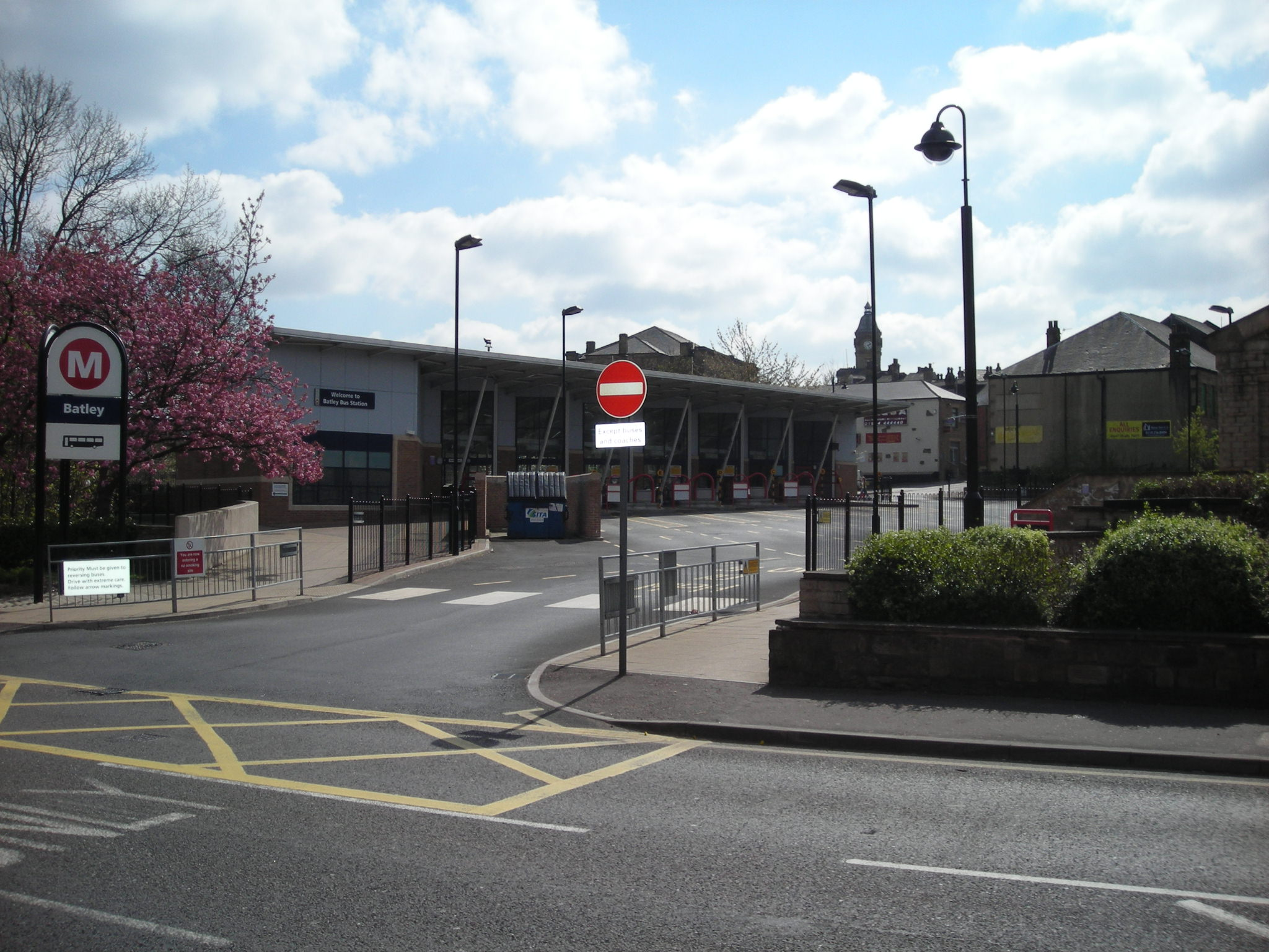 Batley Bus Station one April afternoon